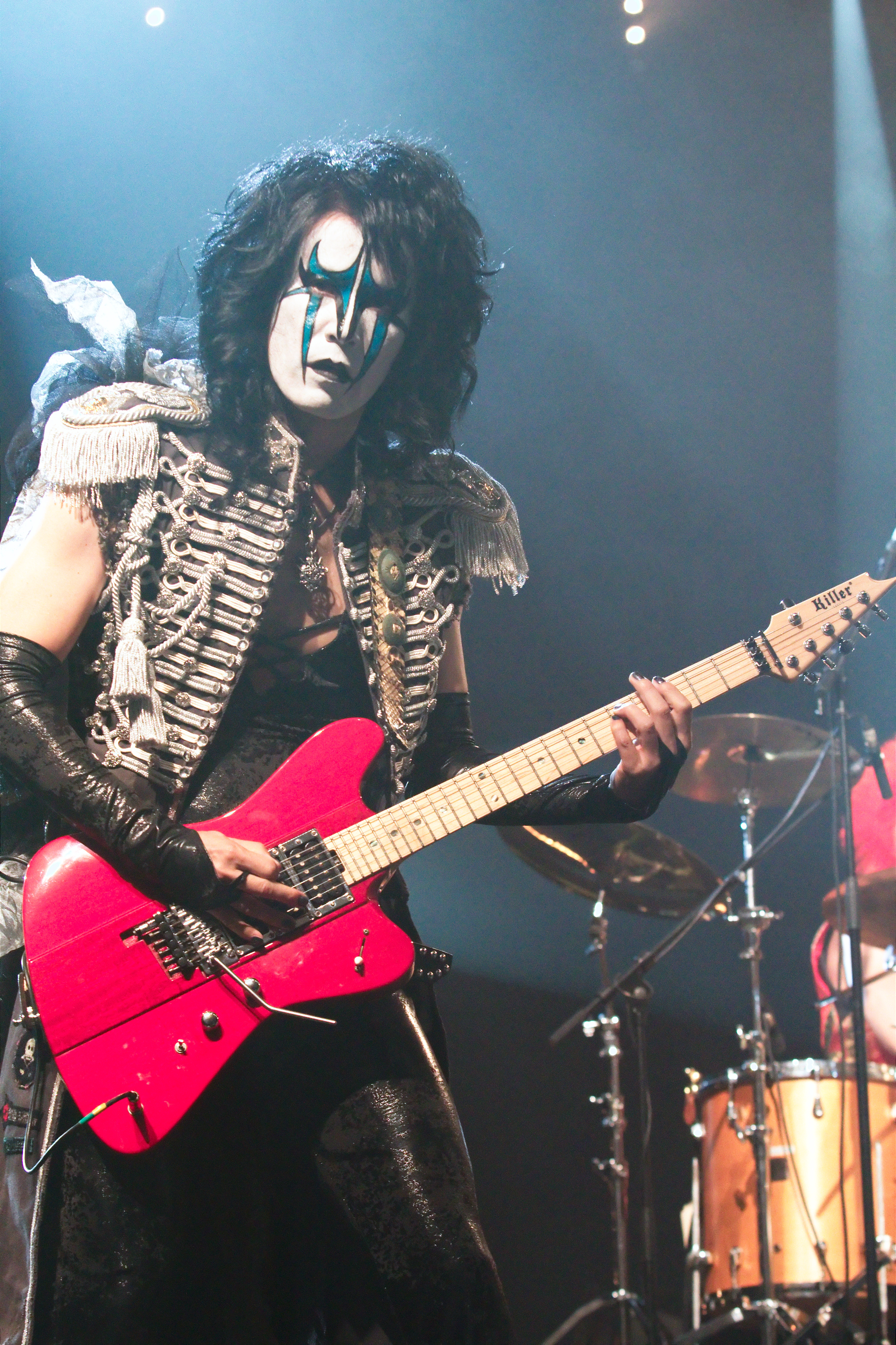 Seikima-II live at Japan Expo 2010 (Paris, France).